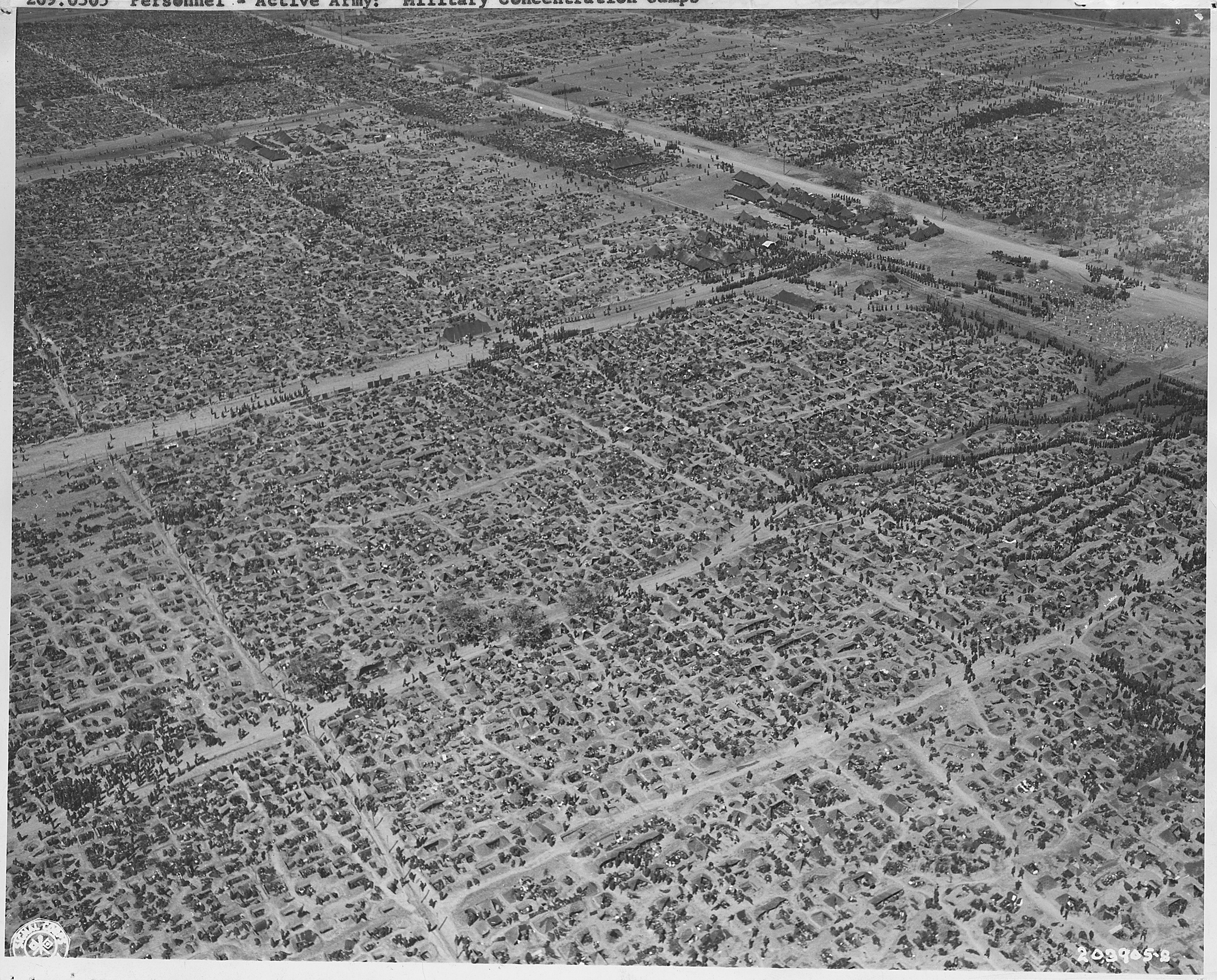 Scope and content: One of the largest concentrations of Nazi prisoners, over 160,000 men, packed into area in Germany, under control of U.S. Army. Aerial view shows tent area in which men are housed temporarily. 4/25/45.